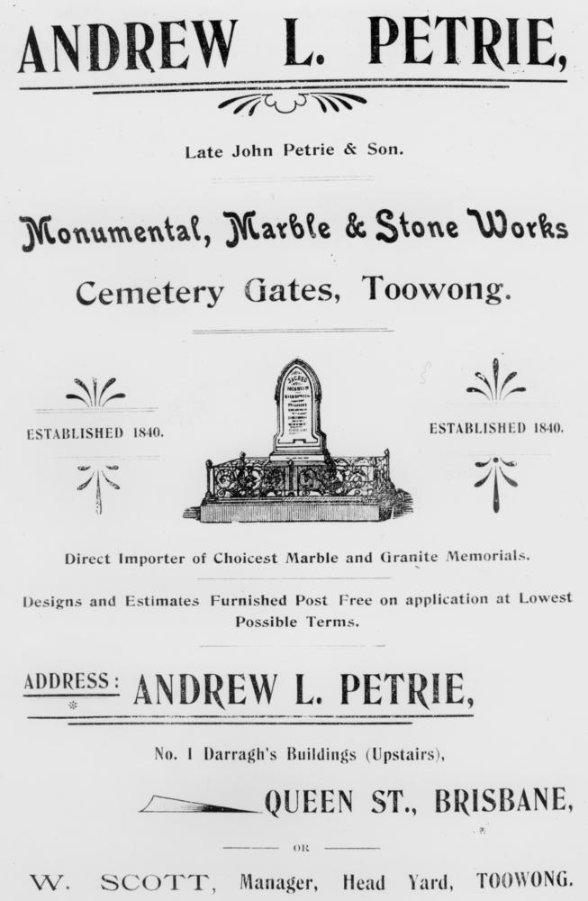 Advertisement for the manufacturer of stone memorials, Andrew L. Petrie Firm of Andrew L. Petrie, previously John Petrie & Son. Head yard located in Toowong, Brisbane.